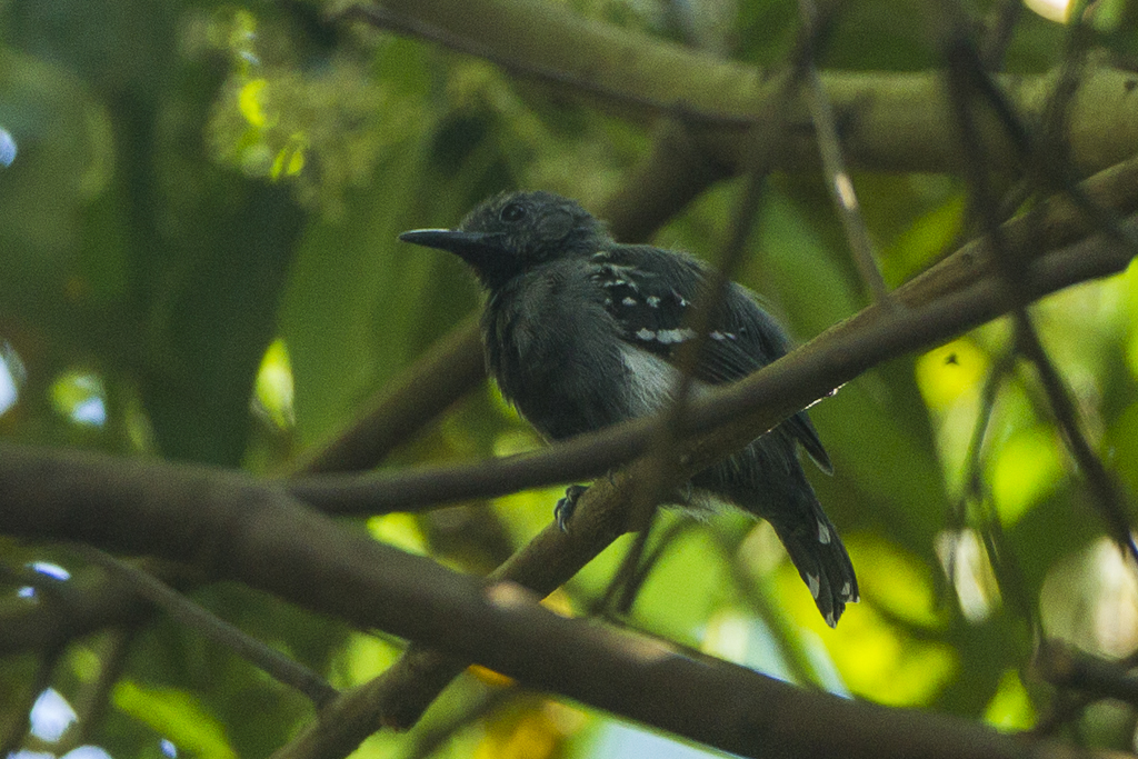 White-flanked Antwren - REGUA - Brazil_S4E0851